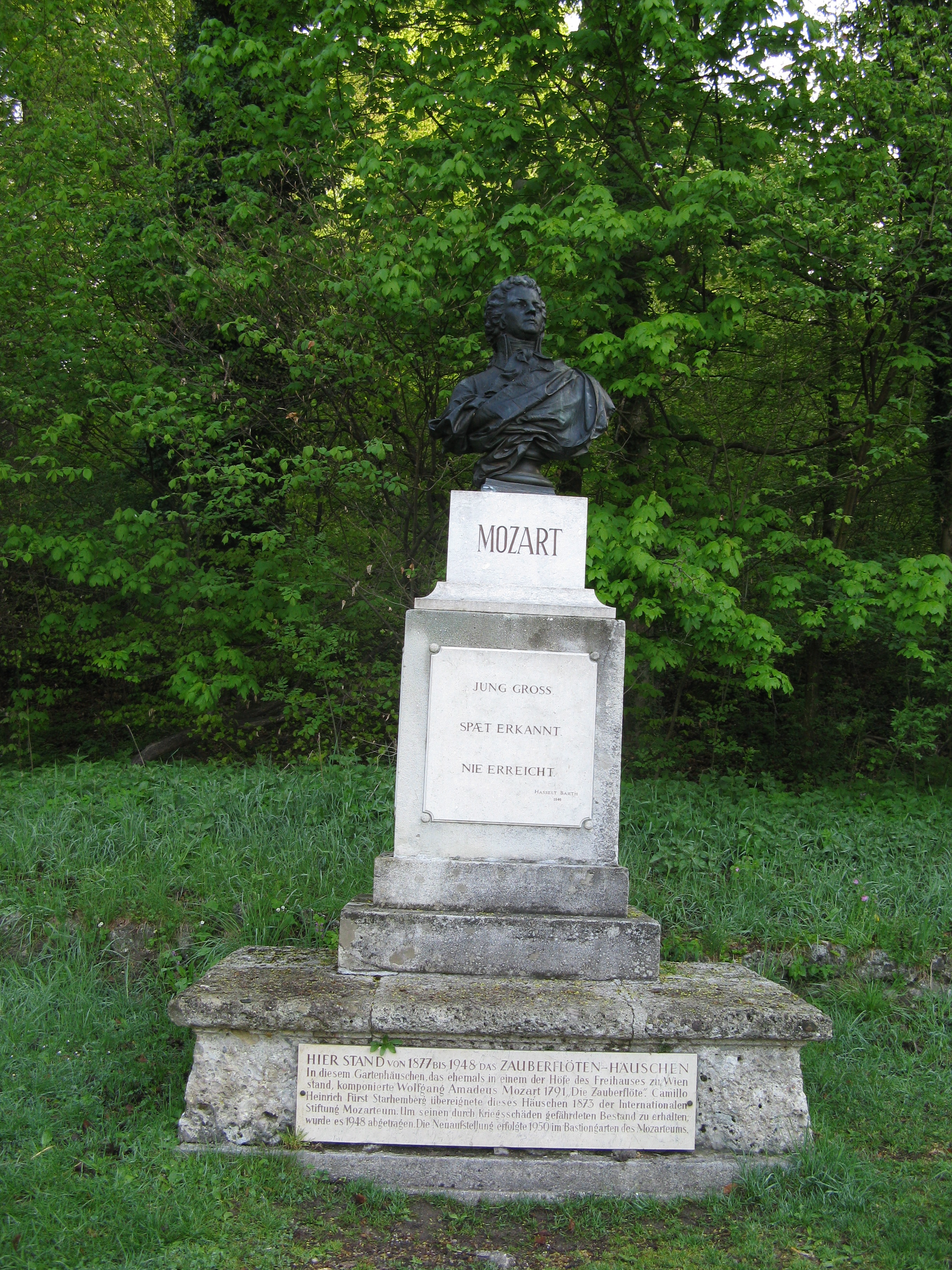 A memorial place for Wolfgang Amadeus Mozart at Kapuzinerberg, Salzburg after restoration. Was originally erected in 1881. [1].